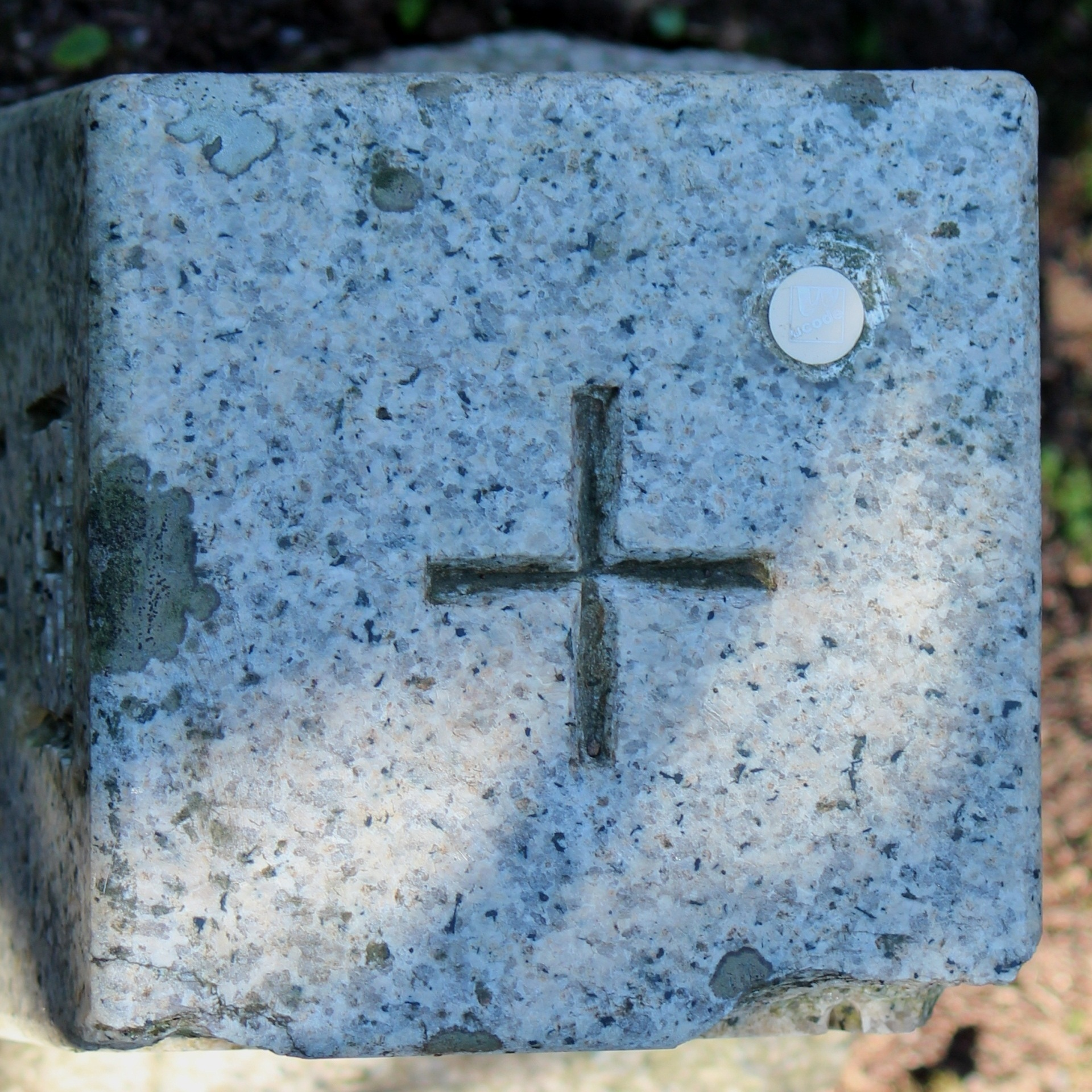 Ucode of Intelligent Trig points in Japan